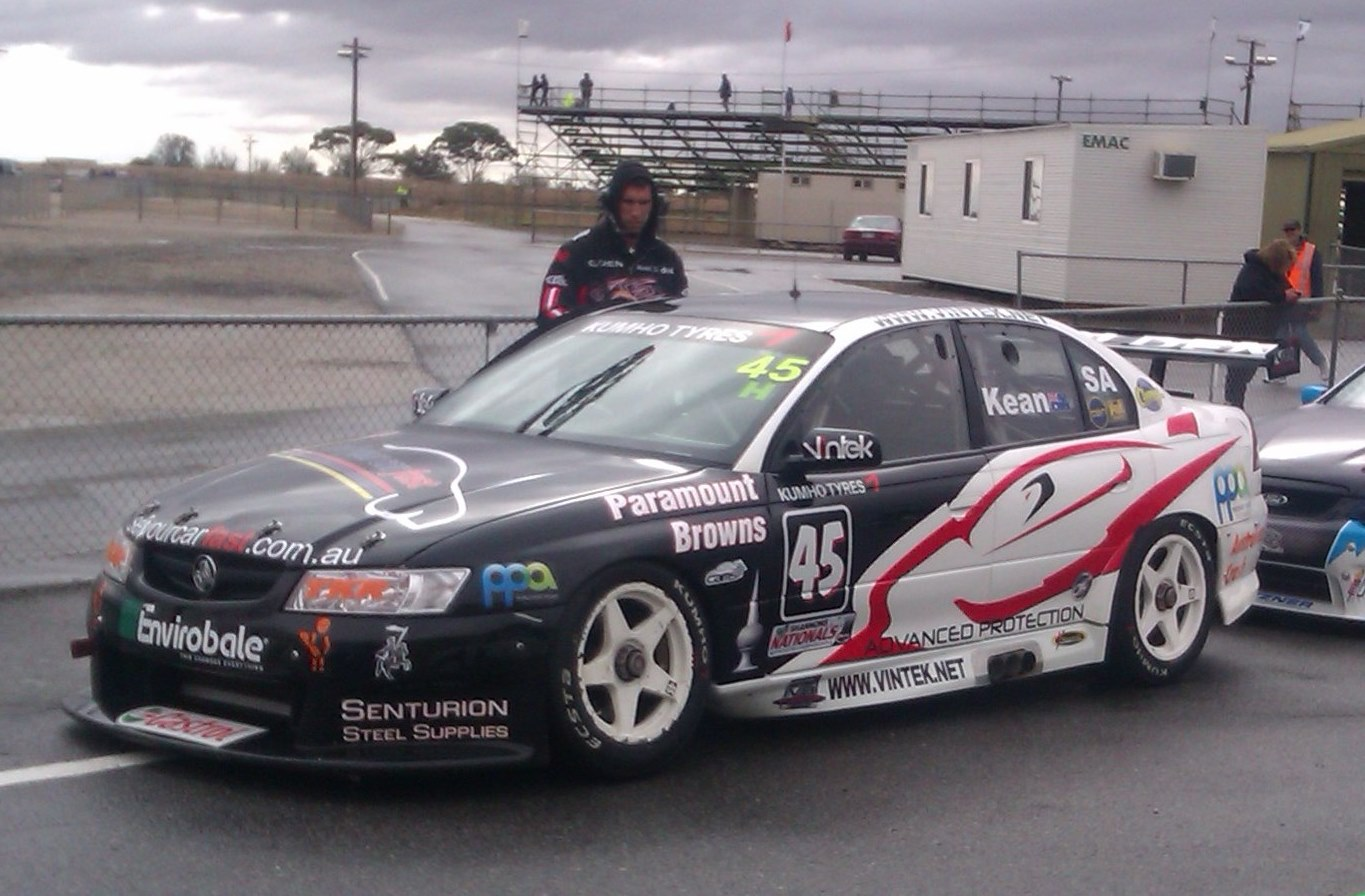 The Holden VZ Commodore of Josh Kean at Mallala Motor Sport Park on 21 April 2013. The car was competing in the Round 2 of the 2013 Kumho Tyres V8 Touring Car Series